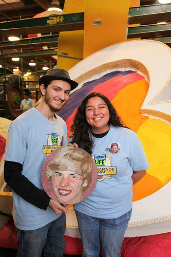 Volunteers create a florograph of Breedlove for the Donate Life float in the Tournament of Roses parade.